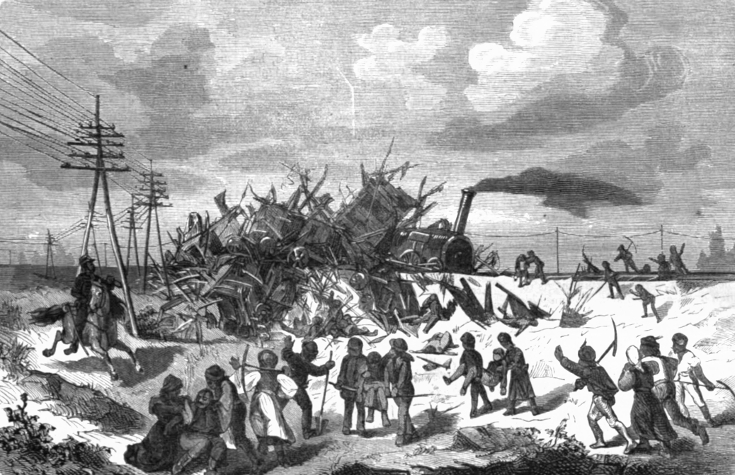 Railway accident near Budapest, 6 May 1873.